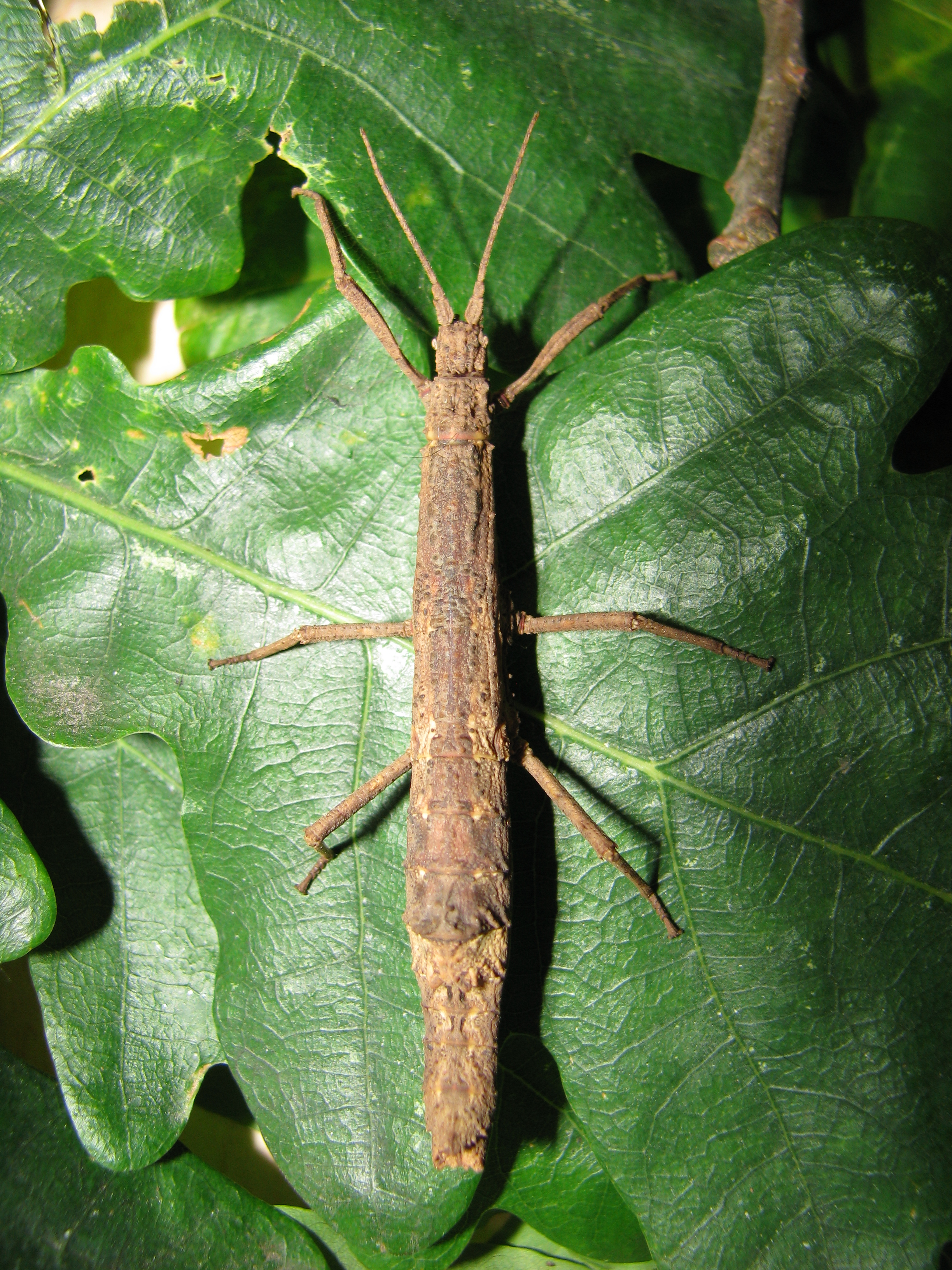 adult female of Small Cigar Stick Insect (Orestes mouhotii)